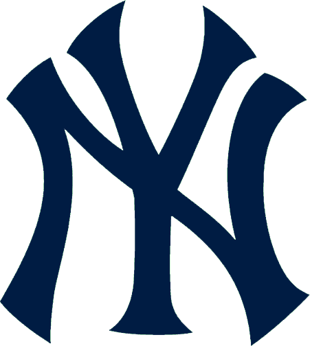 New York Yankees logo, 1913 - 1935. Copied from Image:Yankees_logo.gif, and converted to PNG with v3.22.